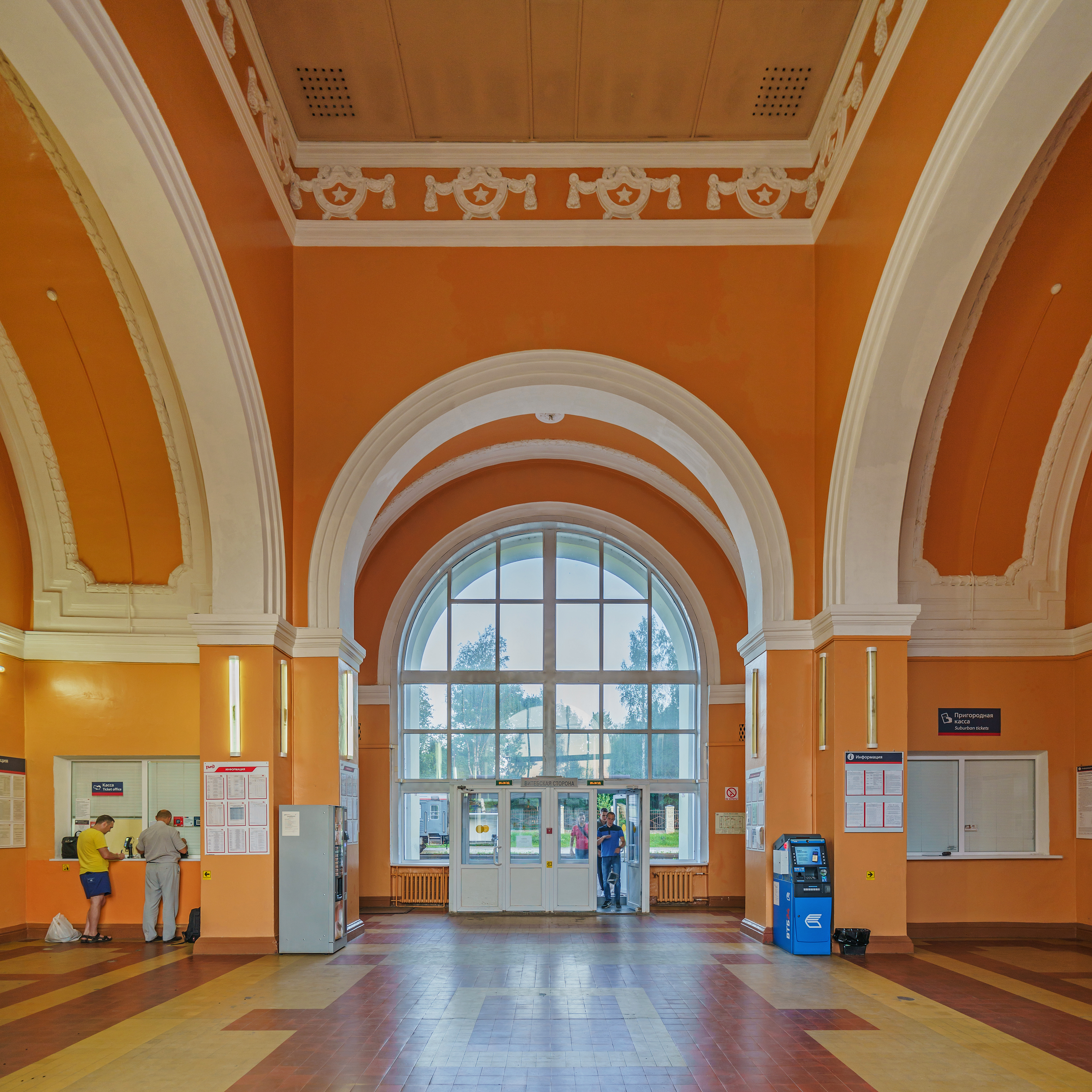 Railway station in Dno, Pskov Oblast, Russia.